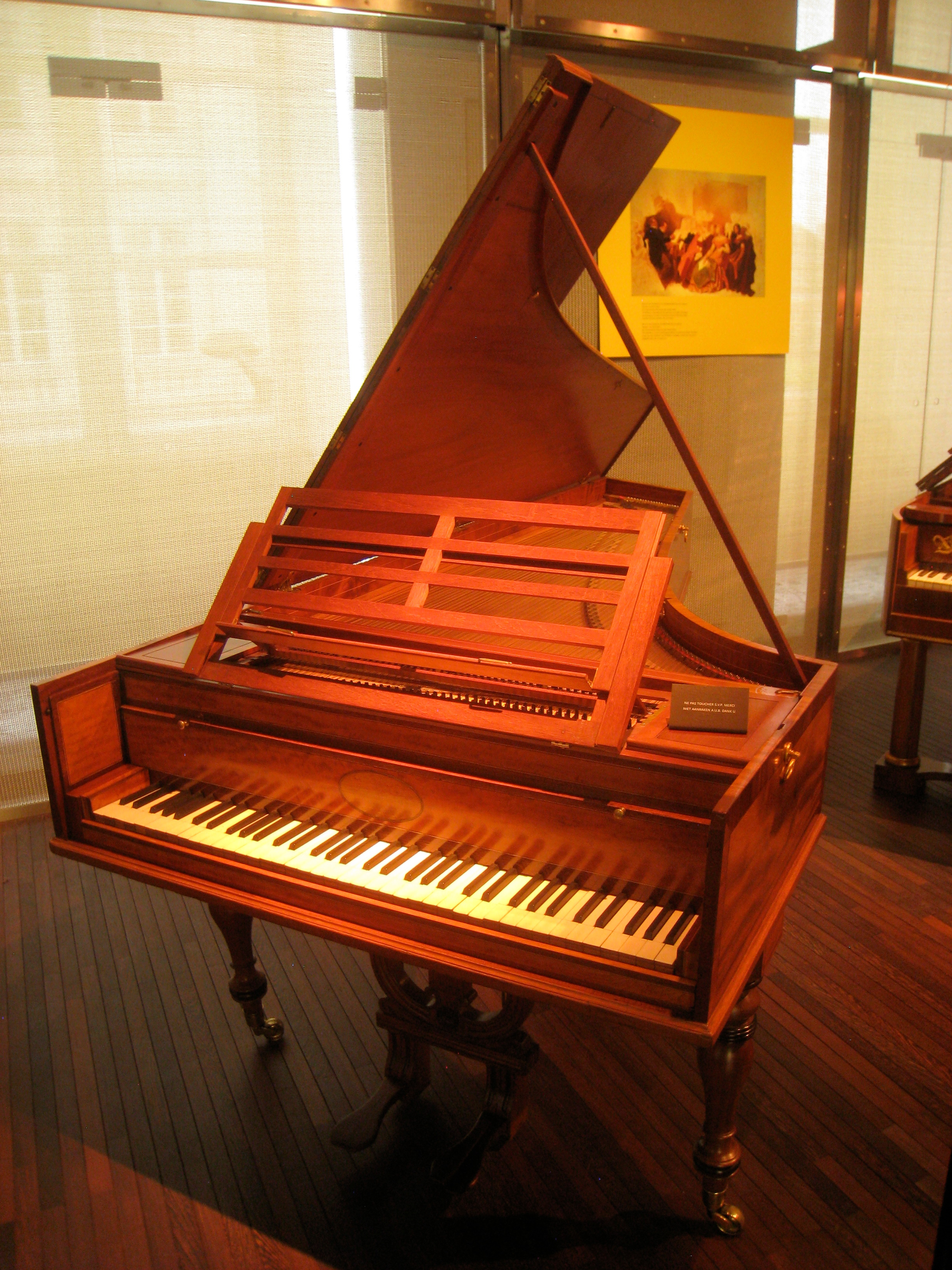 Piano collection in the Musical Instrument Museum, Brussels, Belgium. John Broadwood, London, 1810.